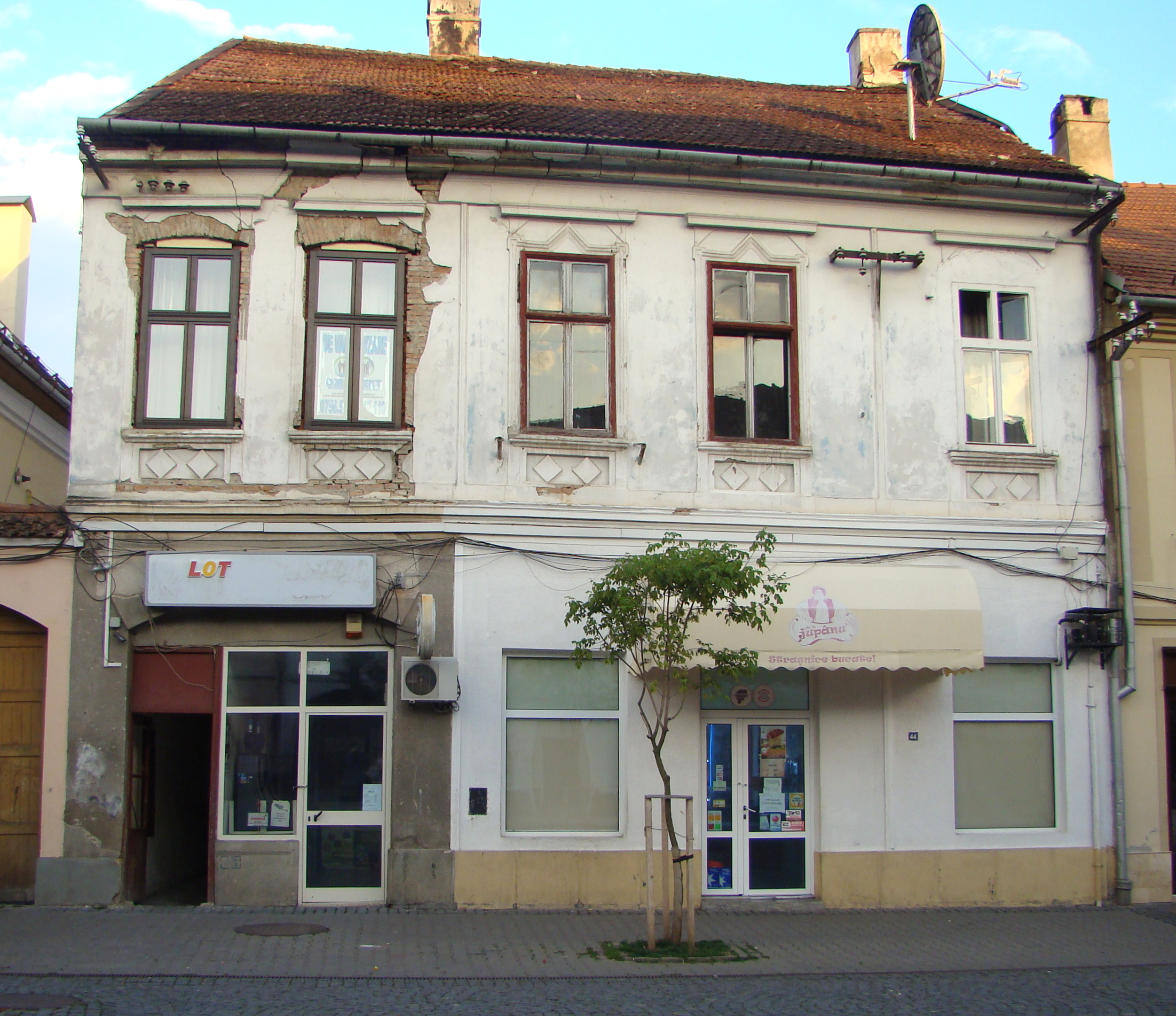 House, historic monument, in Bistrița, Liviu Rebreanu street 44